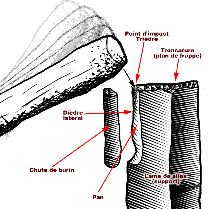 Technique of Burin blow (sample burin on a truncation).